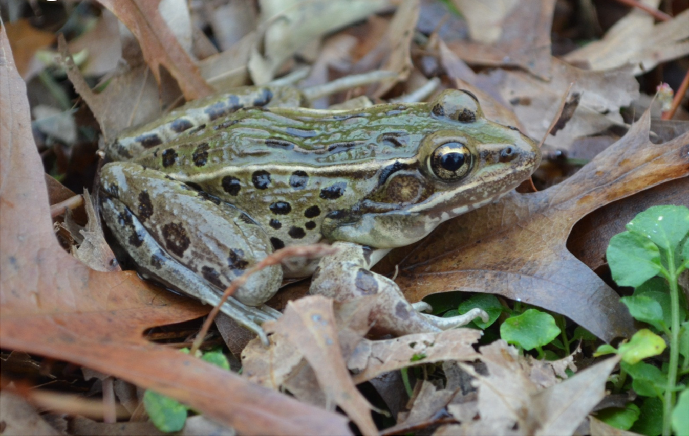 Male Atlantic Coast leopard frog, Rana kauffeldi